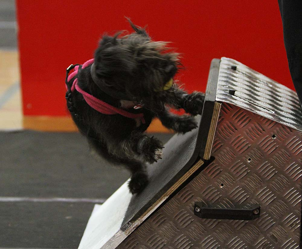 Chip a Patterdale Terrier carrying out a Box Turn during a Flyball Race